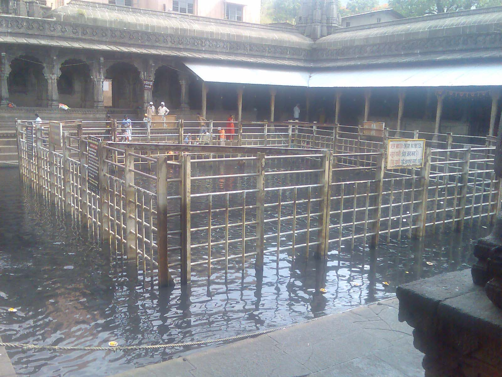 The kund at Triyambakeshwar, considered to be origin of river Godavari.